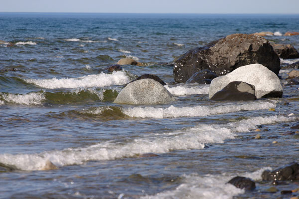 Erin McKittrick